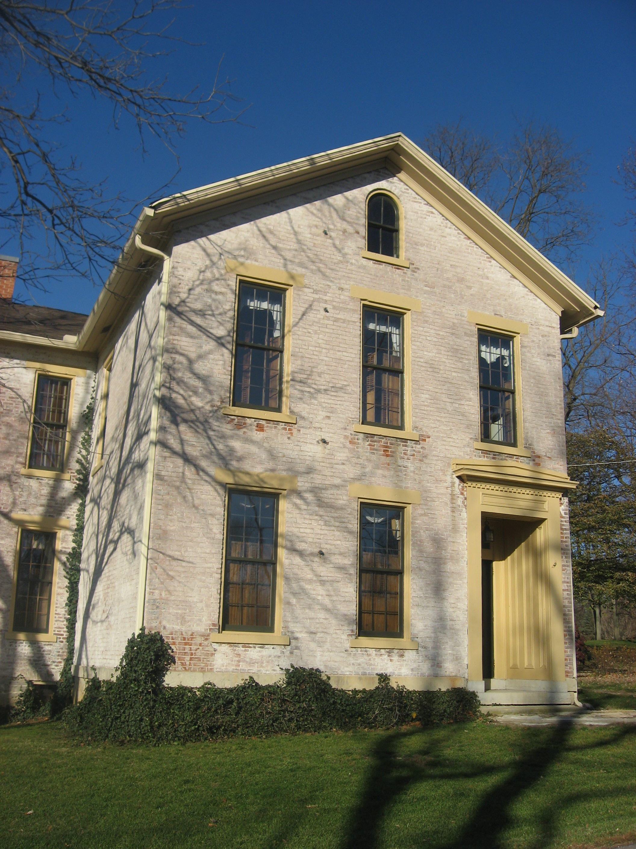 Part of the front of the Samuel Martindale House, located at 785 Martindale Road in Butler Township, Montgomery County, Ohio, United States. Built in 1868, it is listed on the National Register of Historic Places.